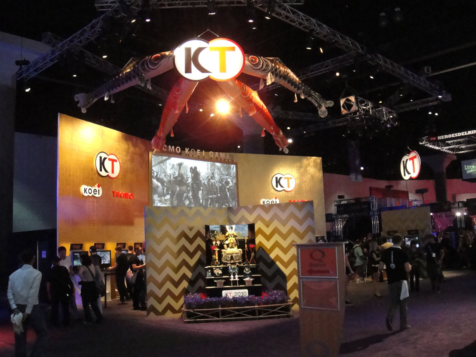 E3 2010 Koei Tecmo booth